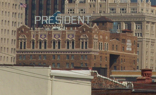 The NRHP-listed Hotel President in Kansas City, MO.